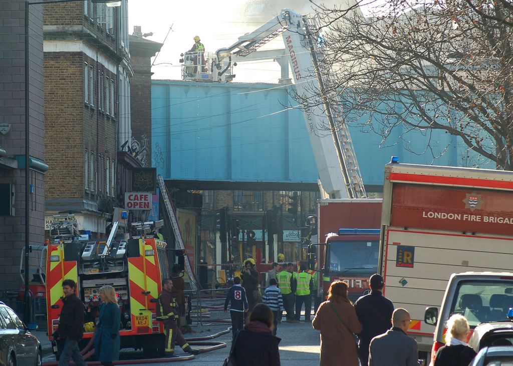 Firefighters in Camden, London, use an aerial ladder platform (ALP) to damp-down a building after a fire